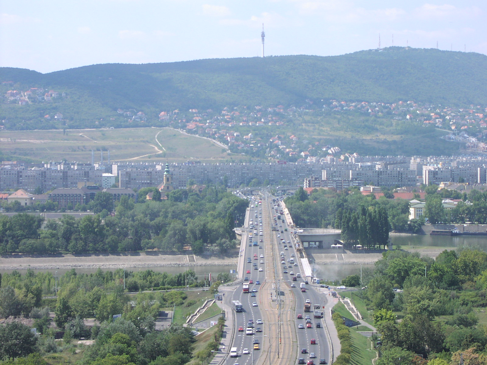 Árpád bridge in Budapest, Hungary